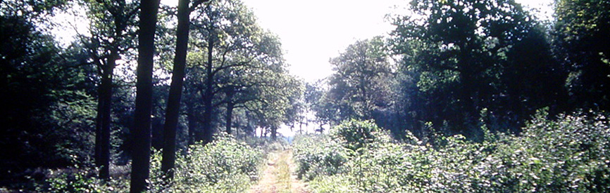 Landscape / Forest of "Rihoult-Clairmarais Forest" (north of France)